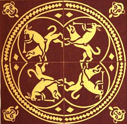 Hare chasing, riding a dog. Medieval tile found at the Friary Derby (UK)Fig. 3 of plate XII, “Encaustic Tiles from the Friary, Derby,” illustration by Llewellynn Jewitt (after a paving tile) for “Notice of Some Encaustic Paving Tiles, Recently Discovered in Derby,” The Reliquary, vol. 3, no. 2, Oct. 1862, p. 93.